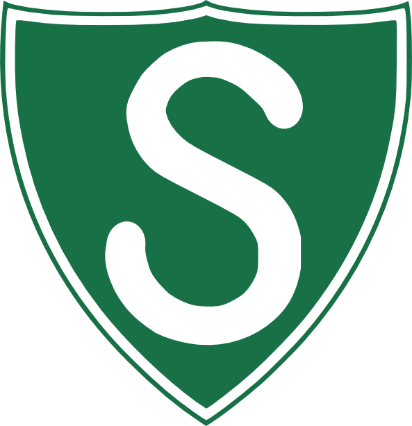 Logo of SpVgg Schupo Liegnitz. German football team.